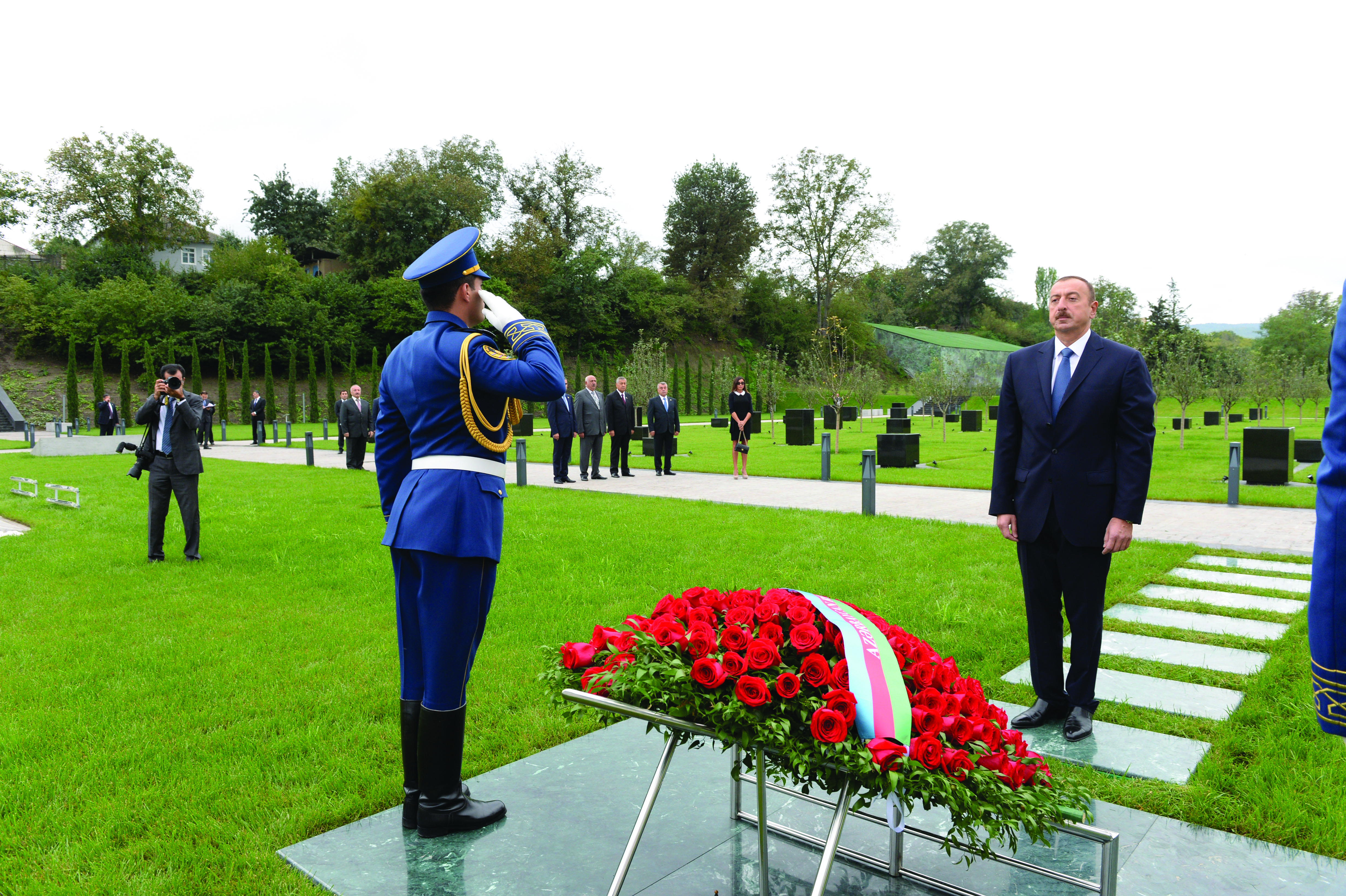 Ilham Aliyev in openning ceremony Guba Genocide Memorial Complex